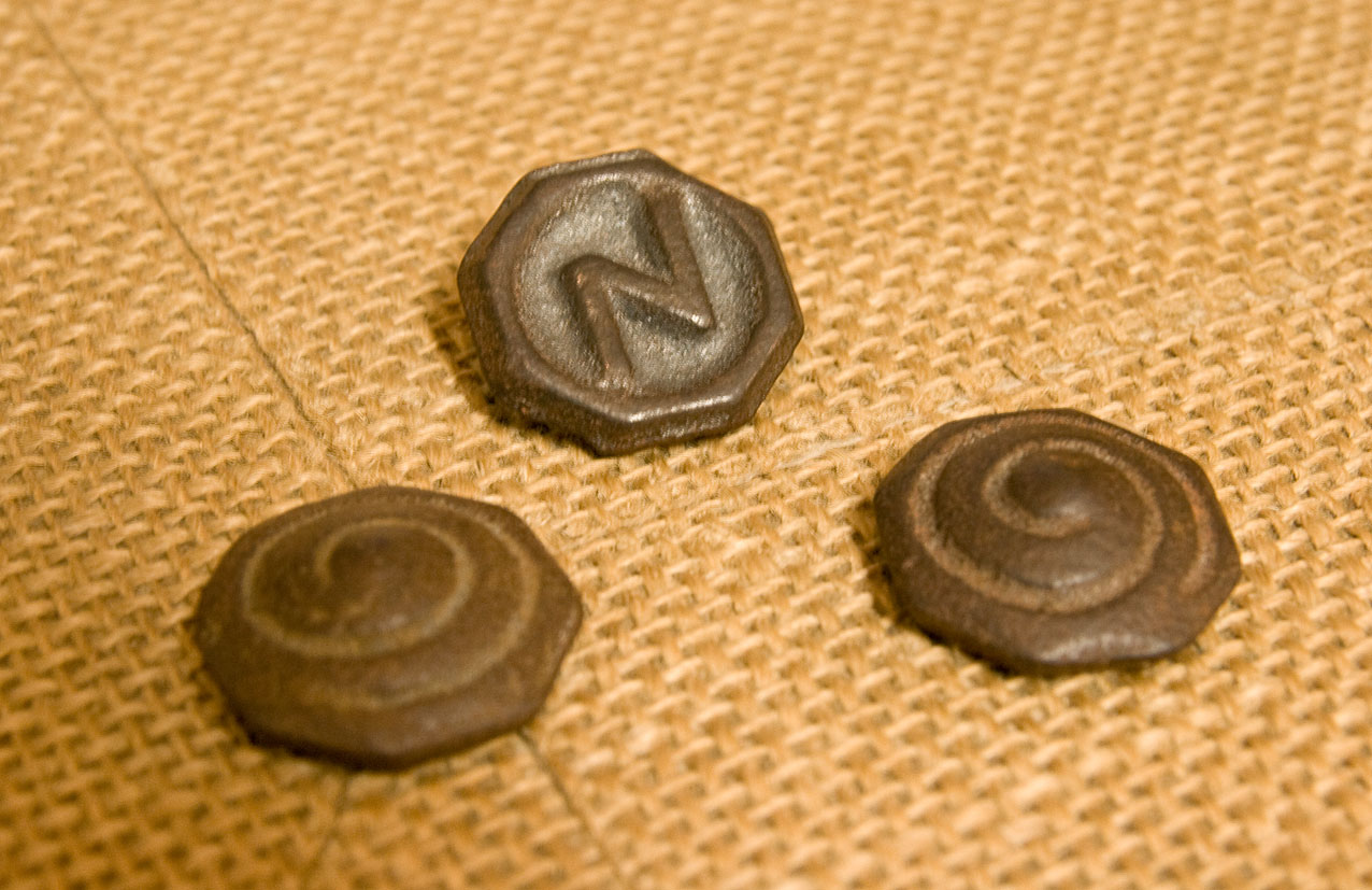 Beigoma